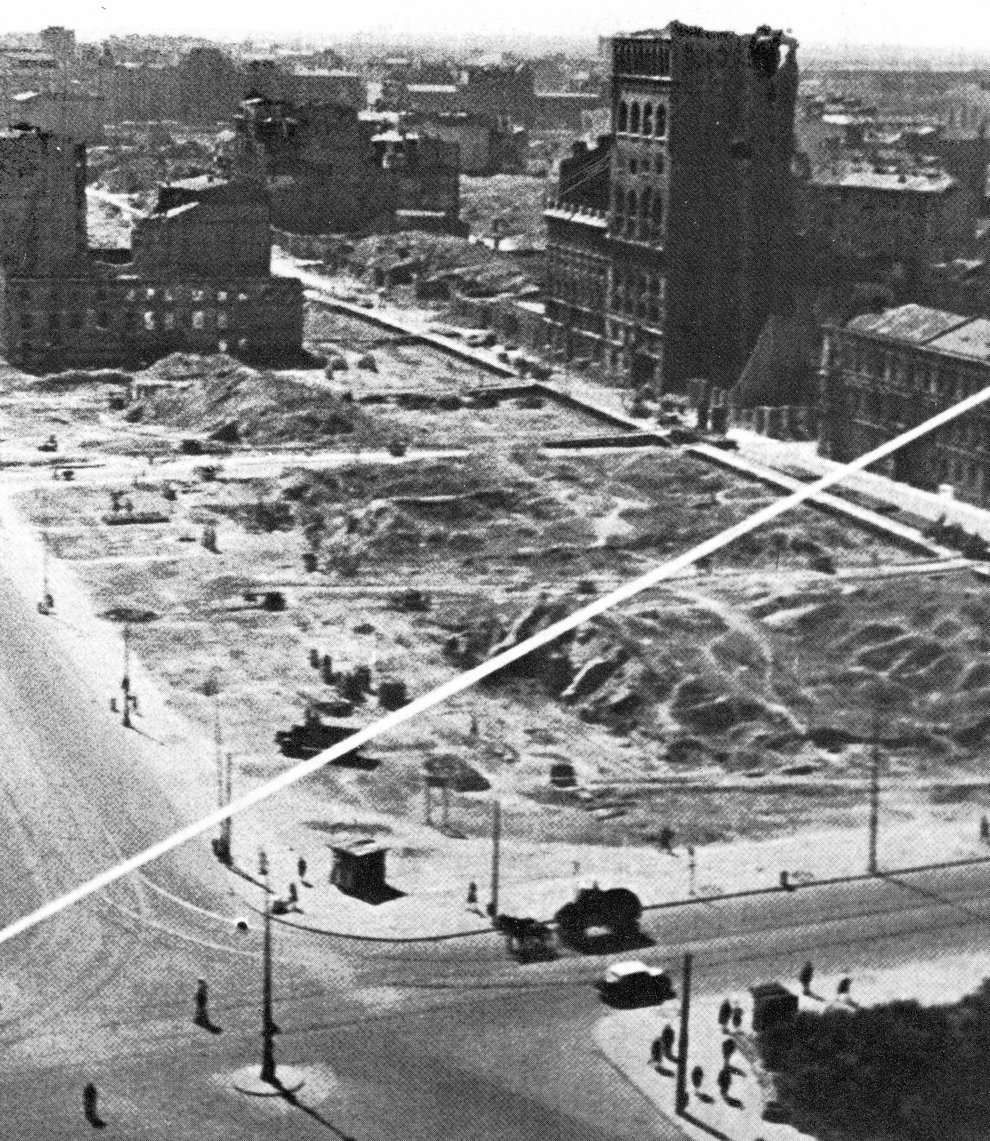 Intersection of Marszałkowska and Królewska Street, view to the south